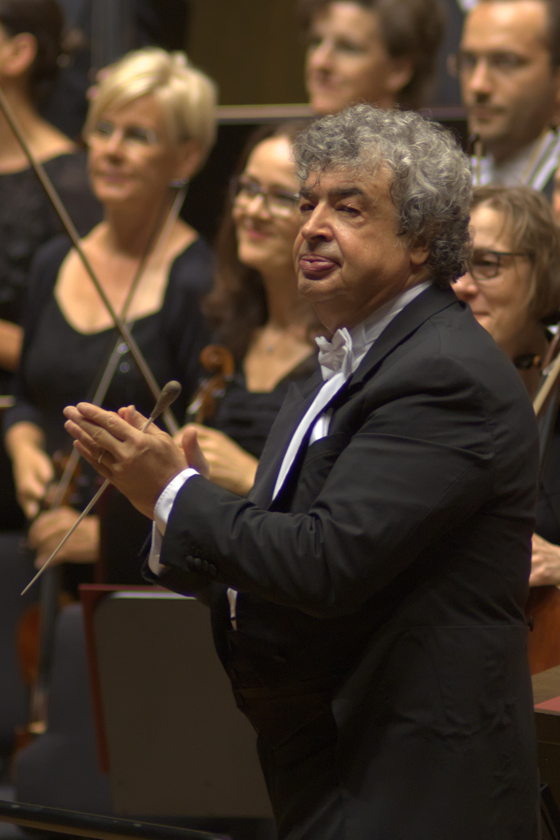 Conductor Semjon Bytschkow in Gewandhaus Leipzig